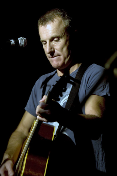 James Reyne The Corner Hotel, Melbourne June 2008